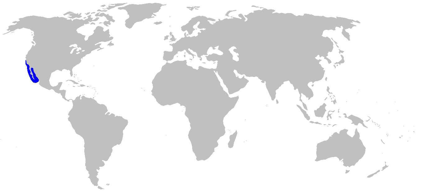 Distribution map for Mustelus californicus